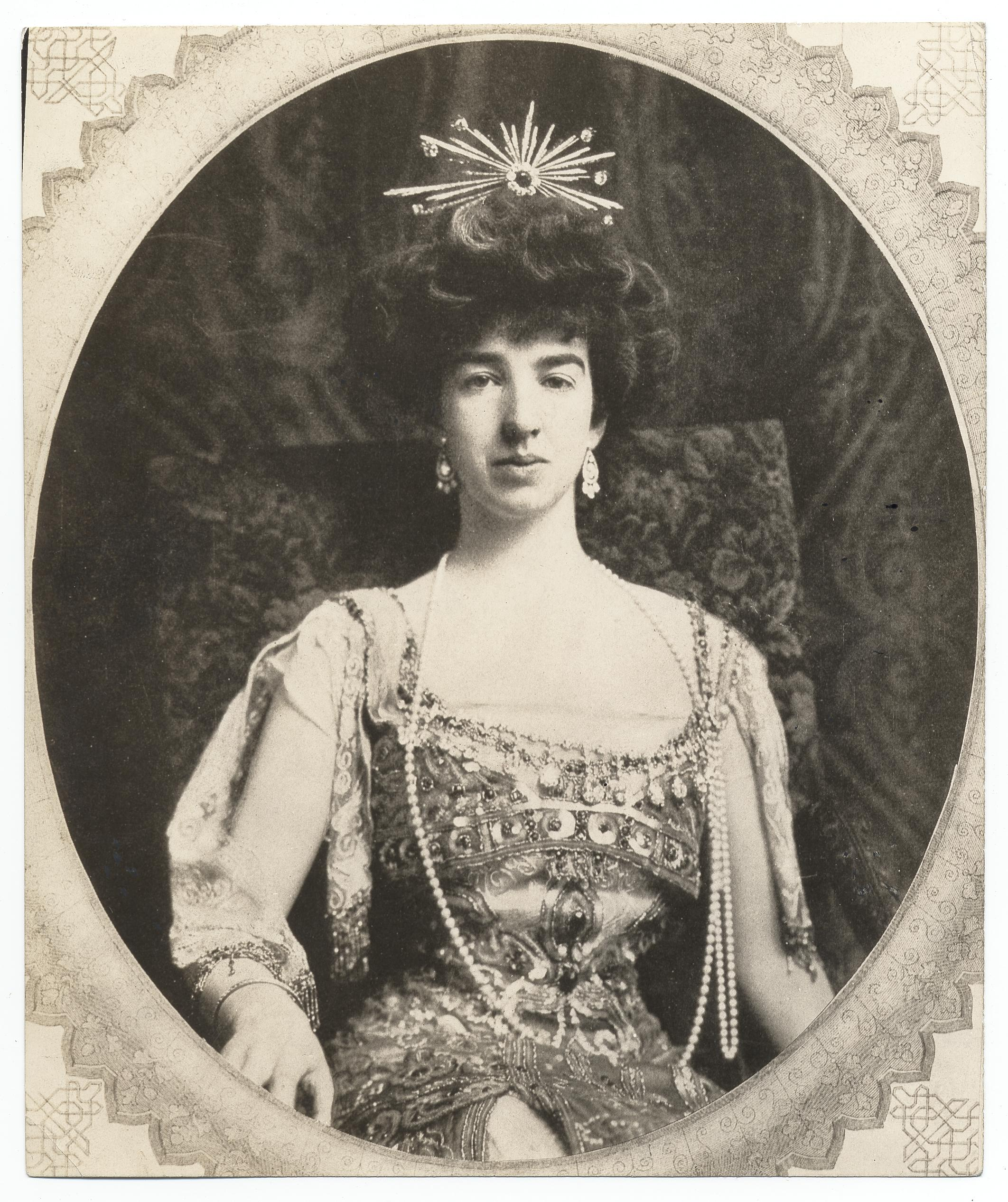 Gertrude Vanderbilt Whitney . From Charles Scribner's Sons Art Reference Department Records, c. 1865-1957, Archives of American Art.